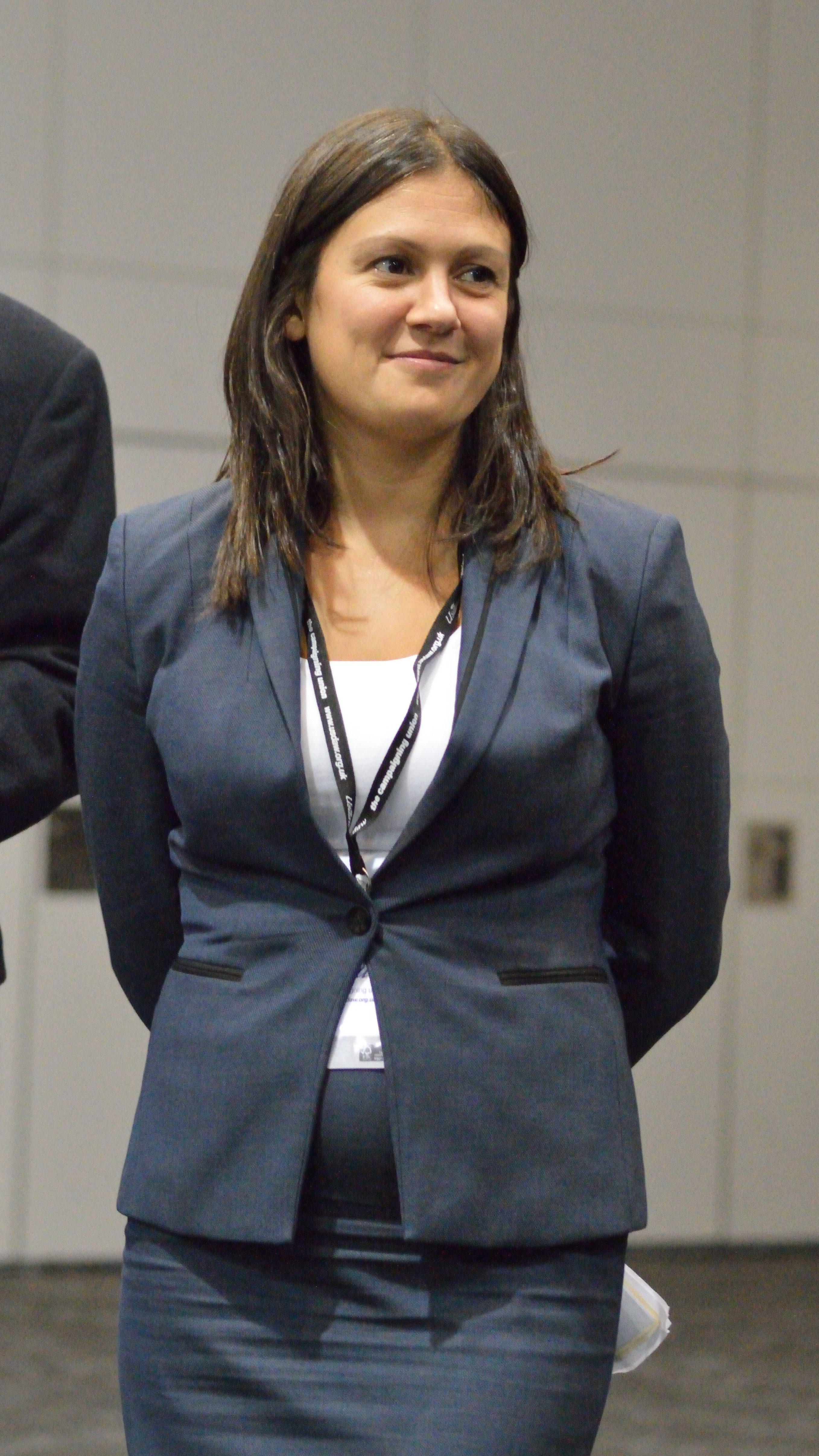 Lisa Nandy at the 2016 Labour Party Conference in Liverpool, waiting to speak at a fringe meeting organised by Labourlist.